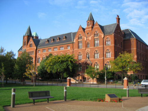 Photo of DuBourg Hall (the administration building) at Saint Louis University, taken by Wilson Delgado for the Wikipedia project, October 25, 2005.